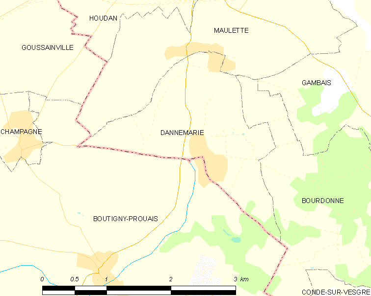 Map of French municipality Dannemarie